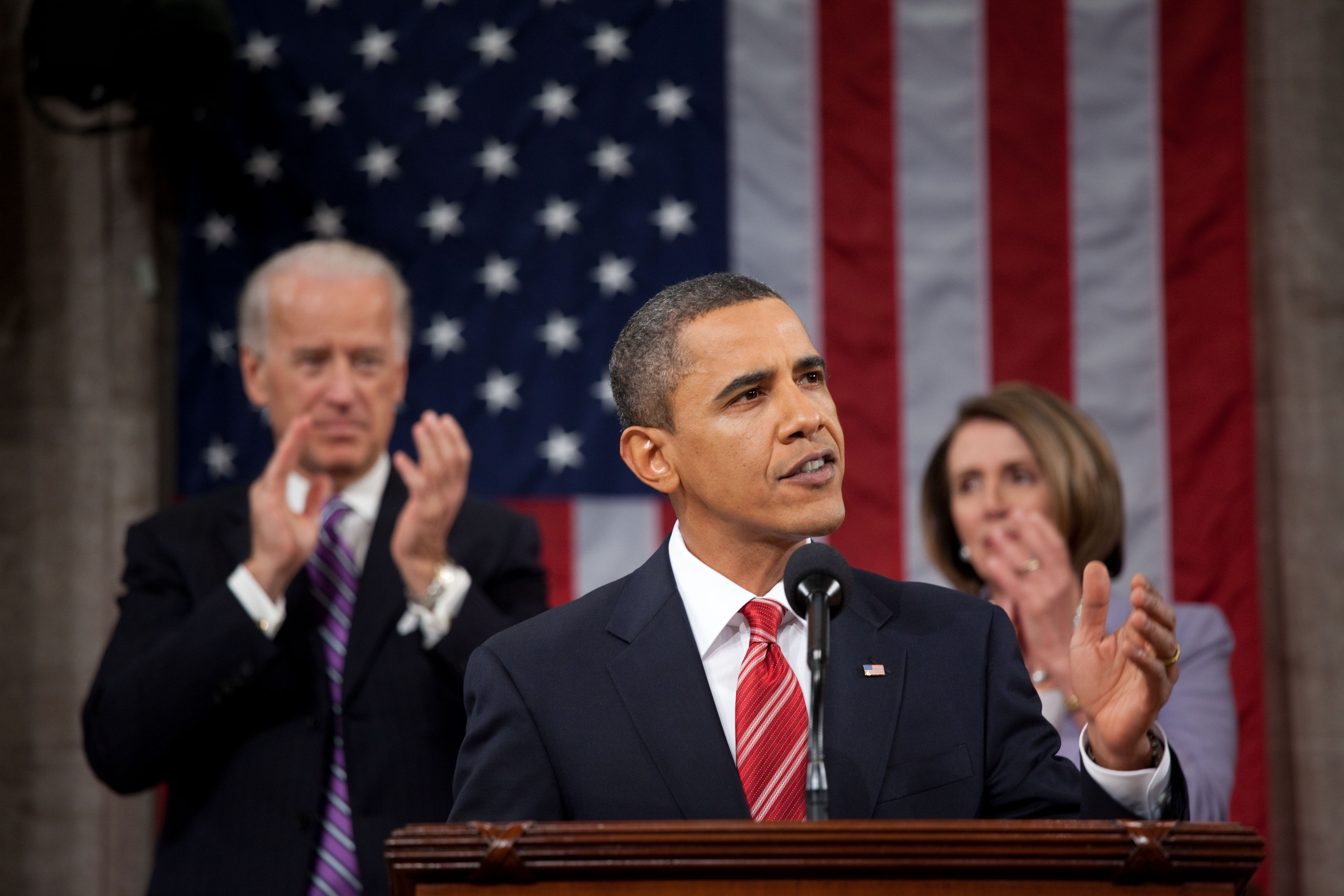 President Barack Obama delivers the 2010 State of the Union address a joint session of the 111th United States Congress on January 27, 2010 (audio file).